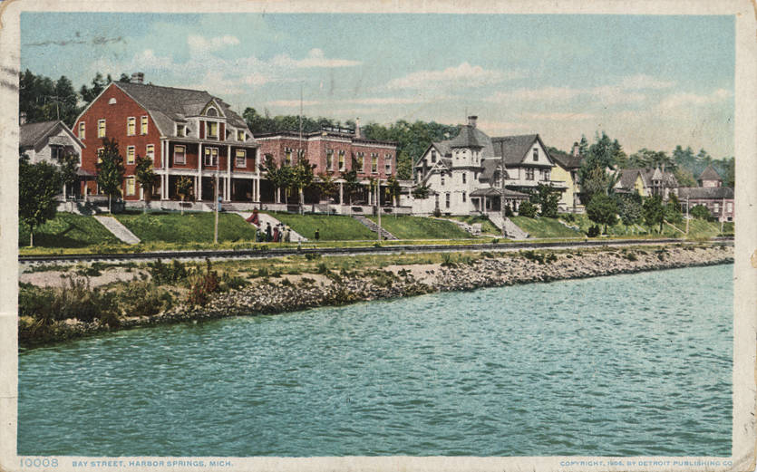 Bay Street